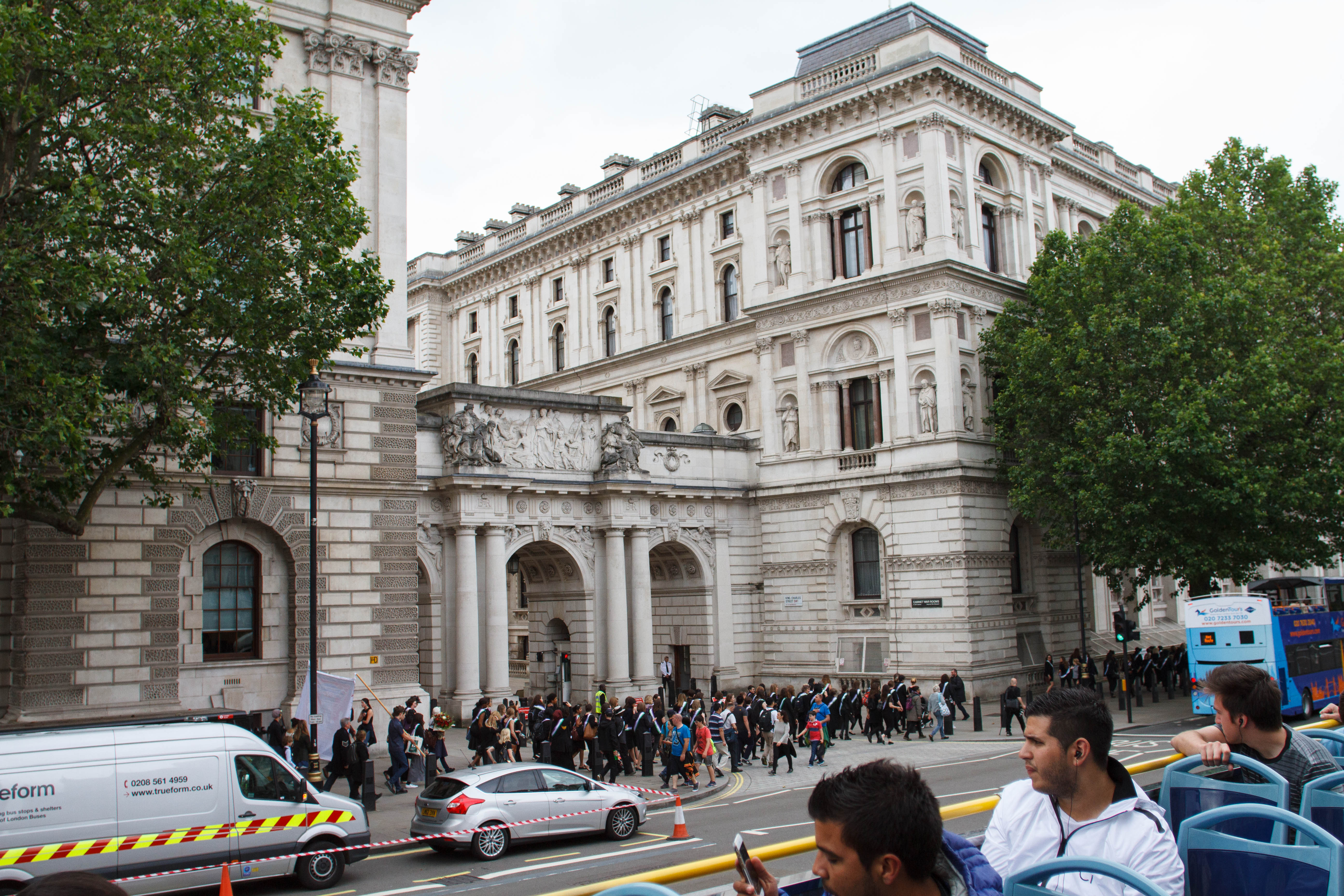 Procession To Trafalgar Square For the Jo Cox Memorial